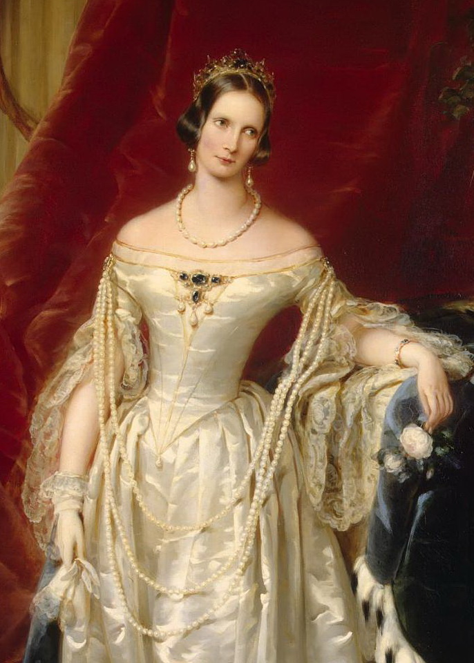 Portrait by Christina Robertson of Empress Alexandra Feodorovna I of Russia